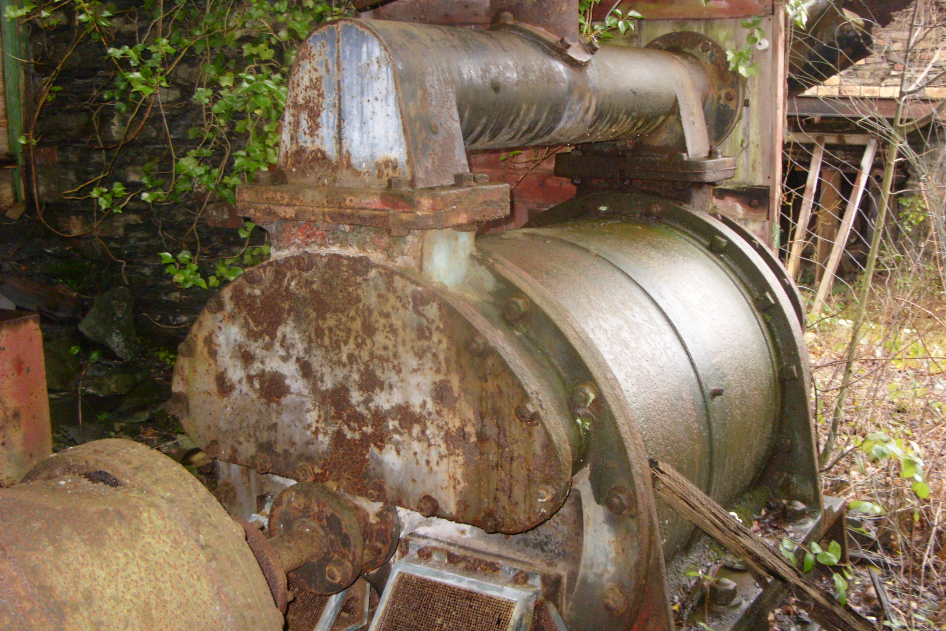 Blowing engine at Backbarrow Furnace connected directly to a single cylinder steam engine